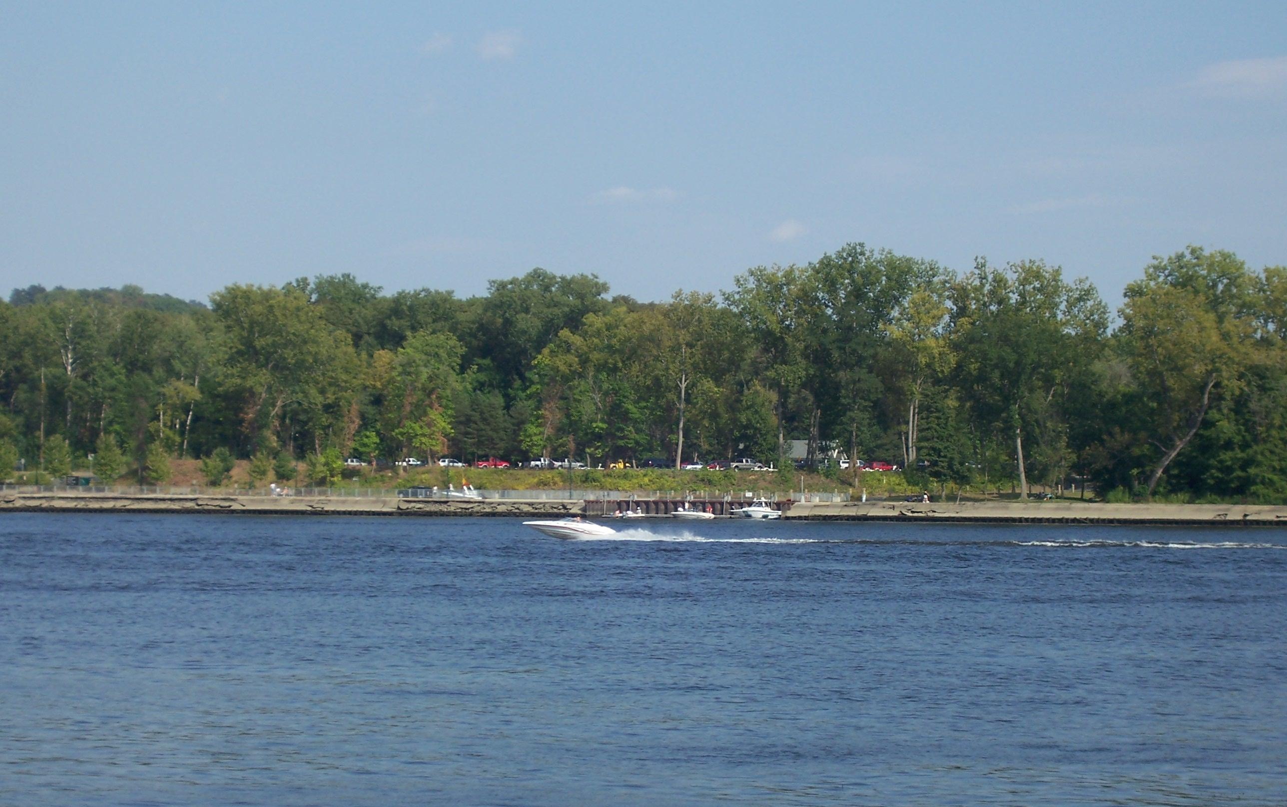 A picture of the Schodack Island State Park, New York, USA, taken from across the river.